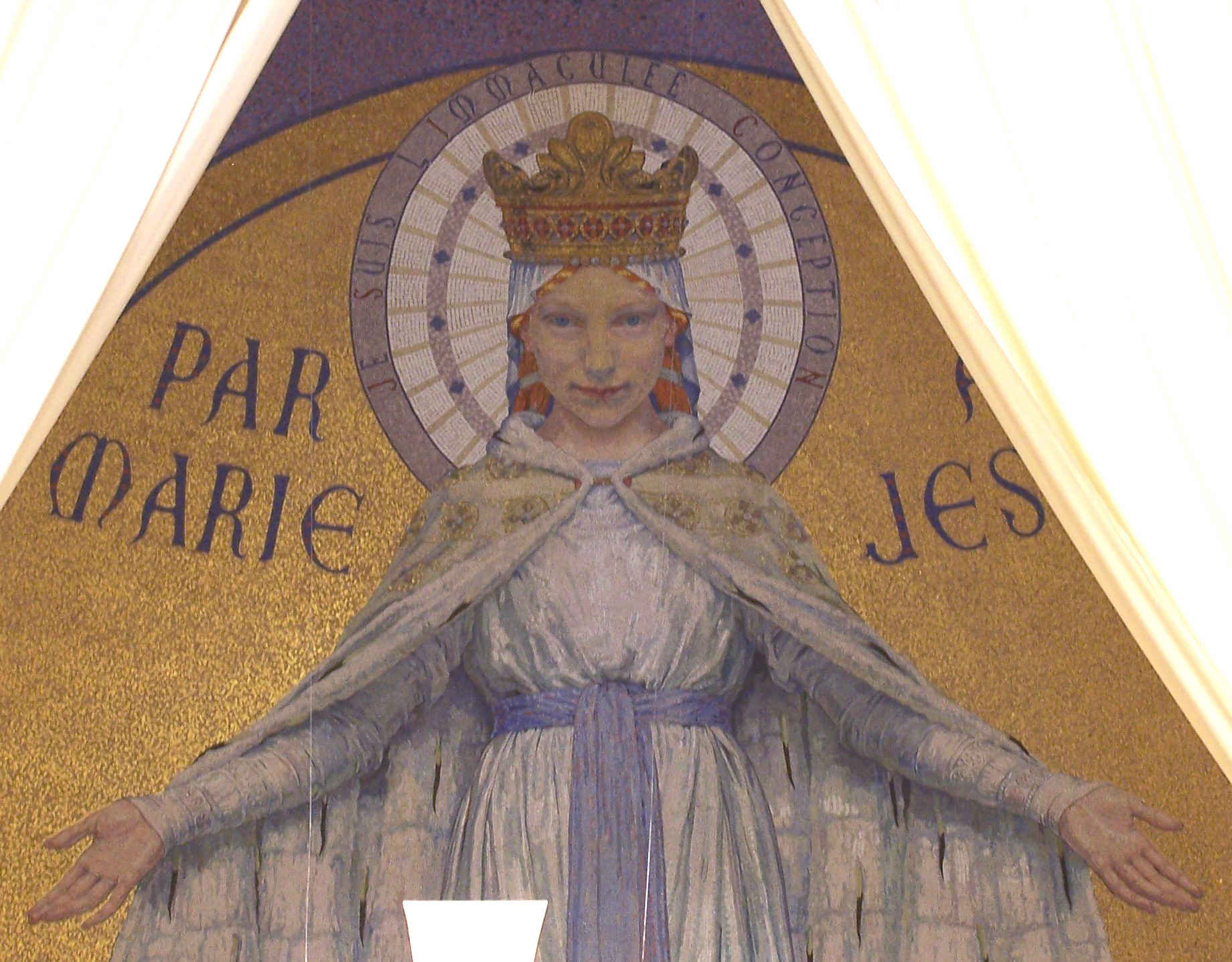 View of the mosaic depicting the Virgin Mary behind the altar of the Rosary Basilica, Sanctuary of Our Lady of Lourdes, France. This permanent mosaic was completed by the time of the consecration of the basilica in 1901. Kodak DX6490 digital camera.